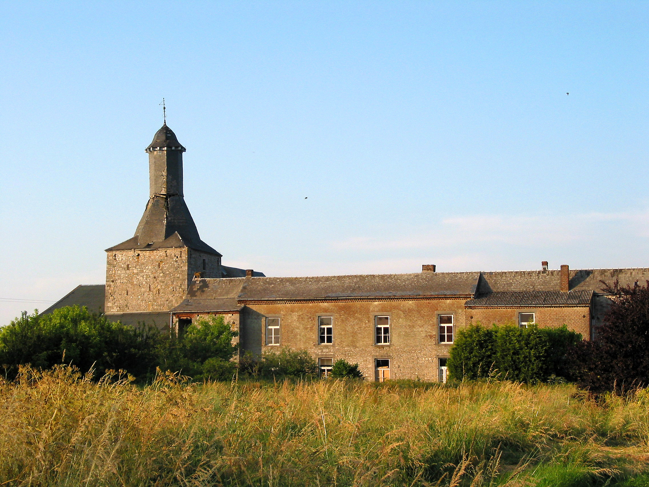 Bois-et-Borsu (Belgium), former castle farm (XIV/XVIIth centuries).